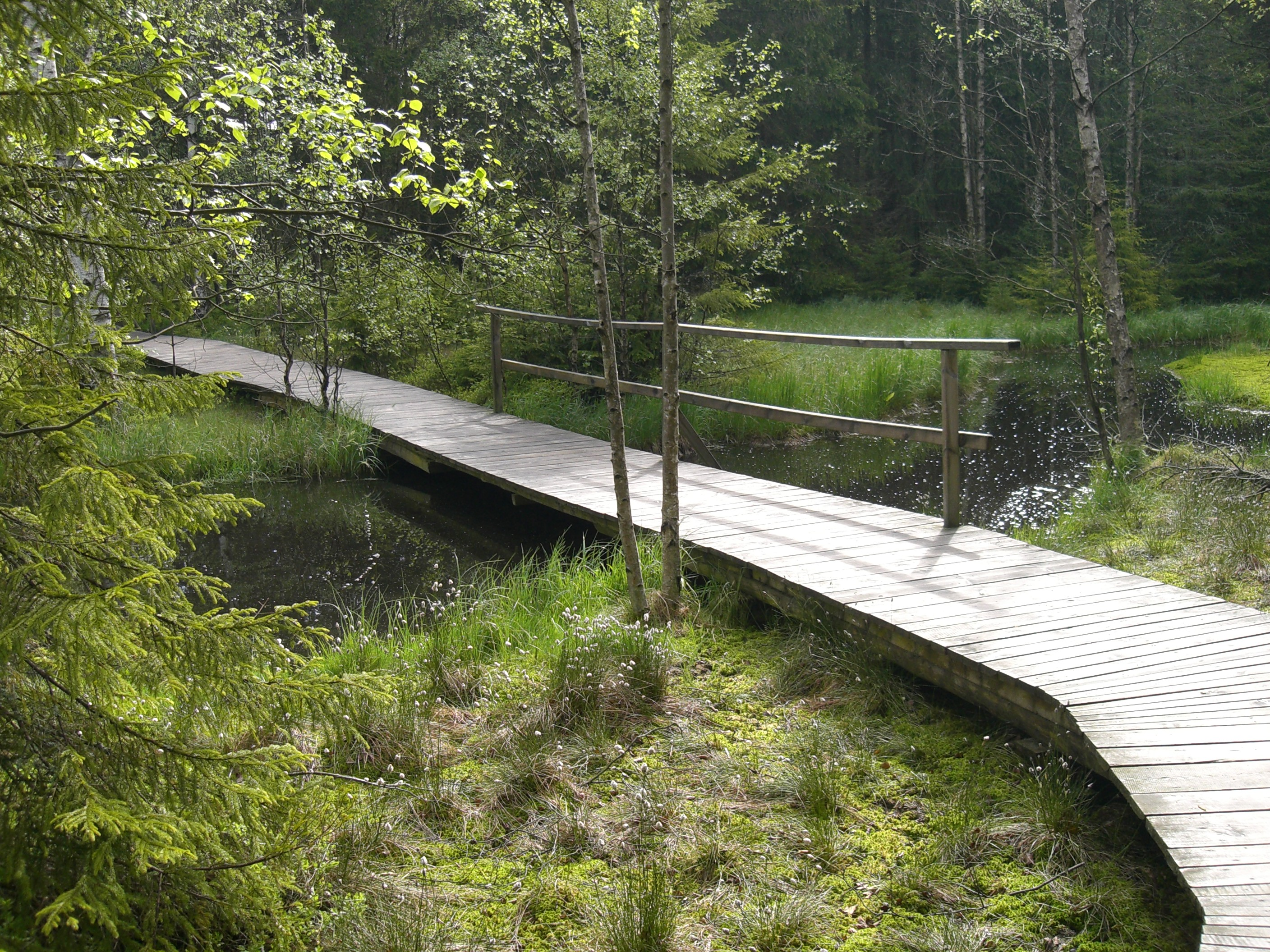 Way around Kladská pond near Mariánské Lázně, Czech Republic. Around 50°1'34.92"N,12°40'30.55"E